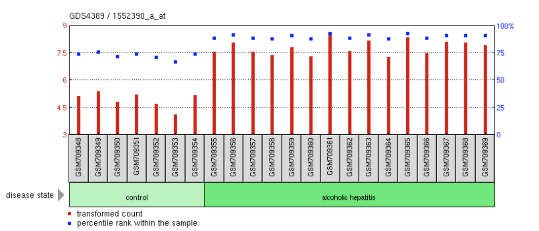 Graph depicting the expression levels of ERICH5 under normal conditions compared to expression levels in the tissue of someone with Alcoholic Hepatitis.